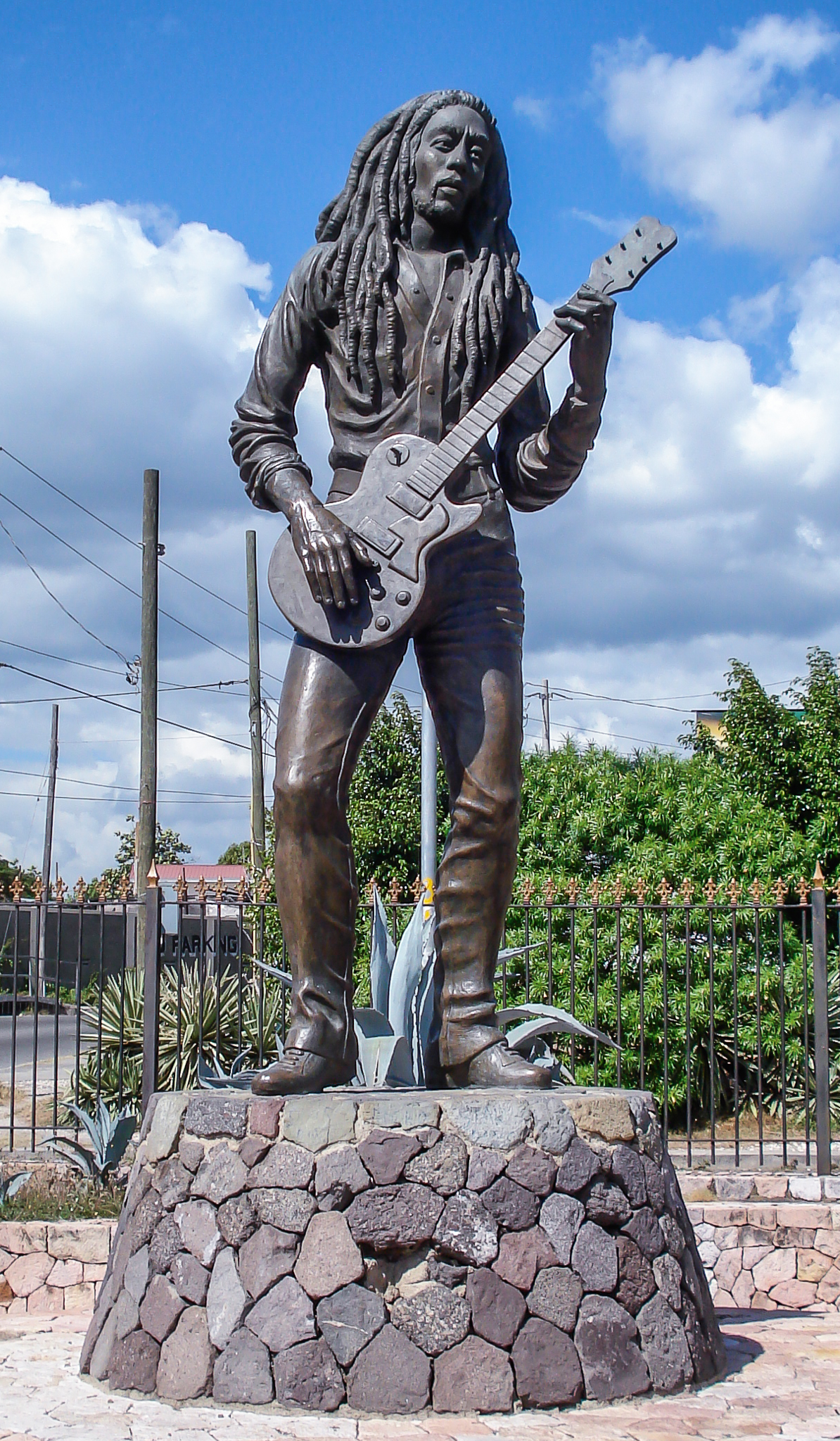 Bob Marley Statue in Kingston, Jamaica; by Alvin Marriott